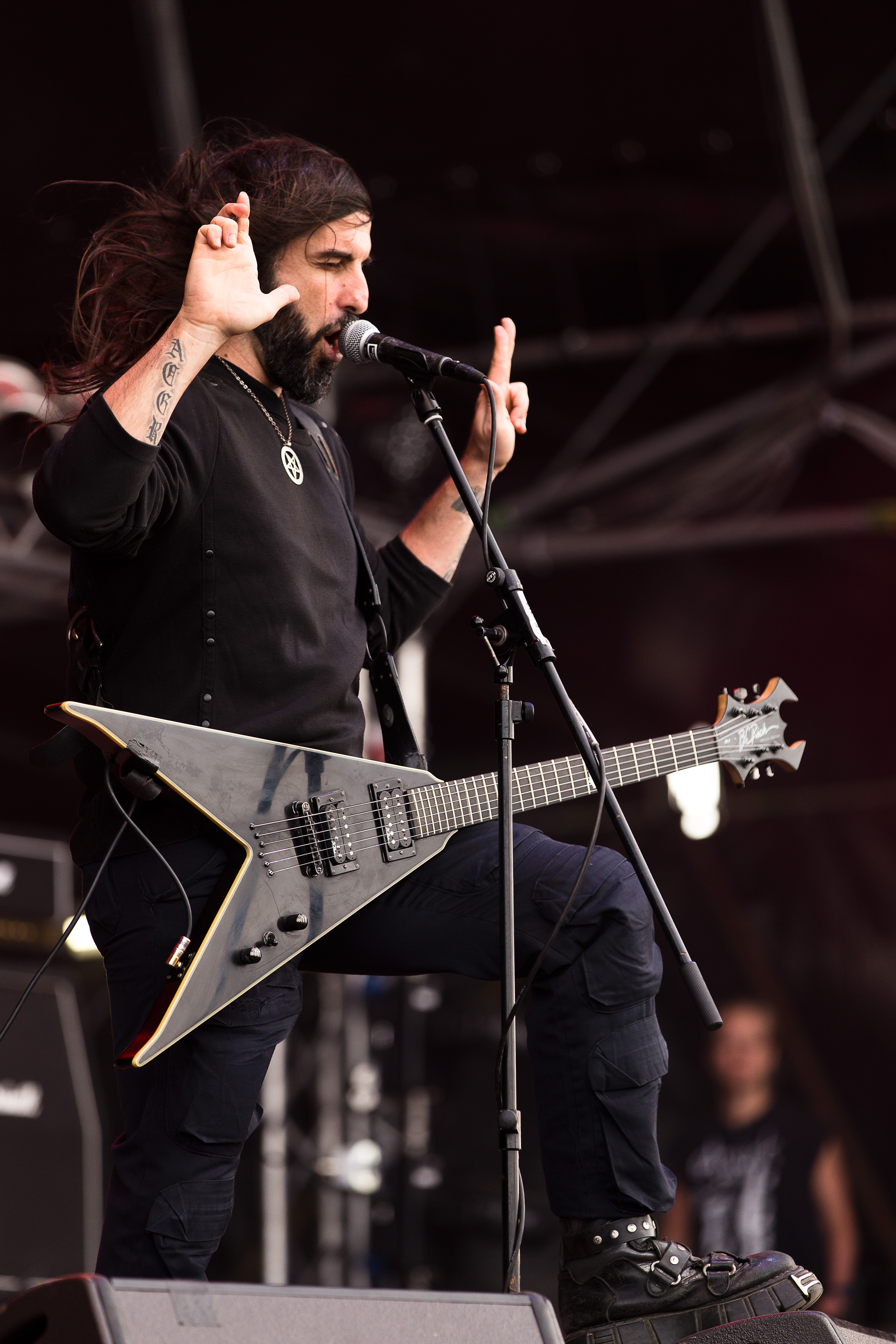 The Greek metal band Rotting Christ at the Party.San Open Air 2015 in Obermehler-Schlotheim/Germany.